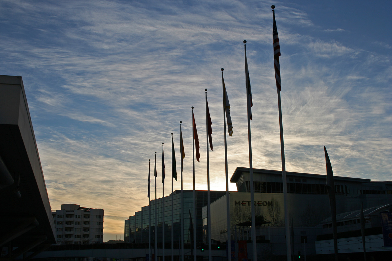 Moscone Convention Center in San Francisco, Calfornia at Sunset. Taken February 5, 2006 by Scott Stevenson.